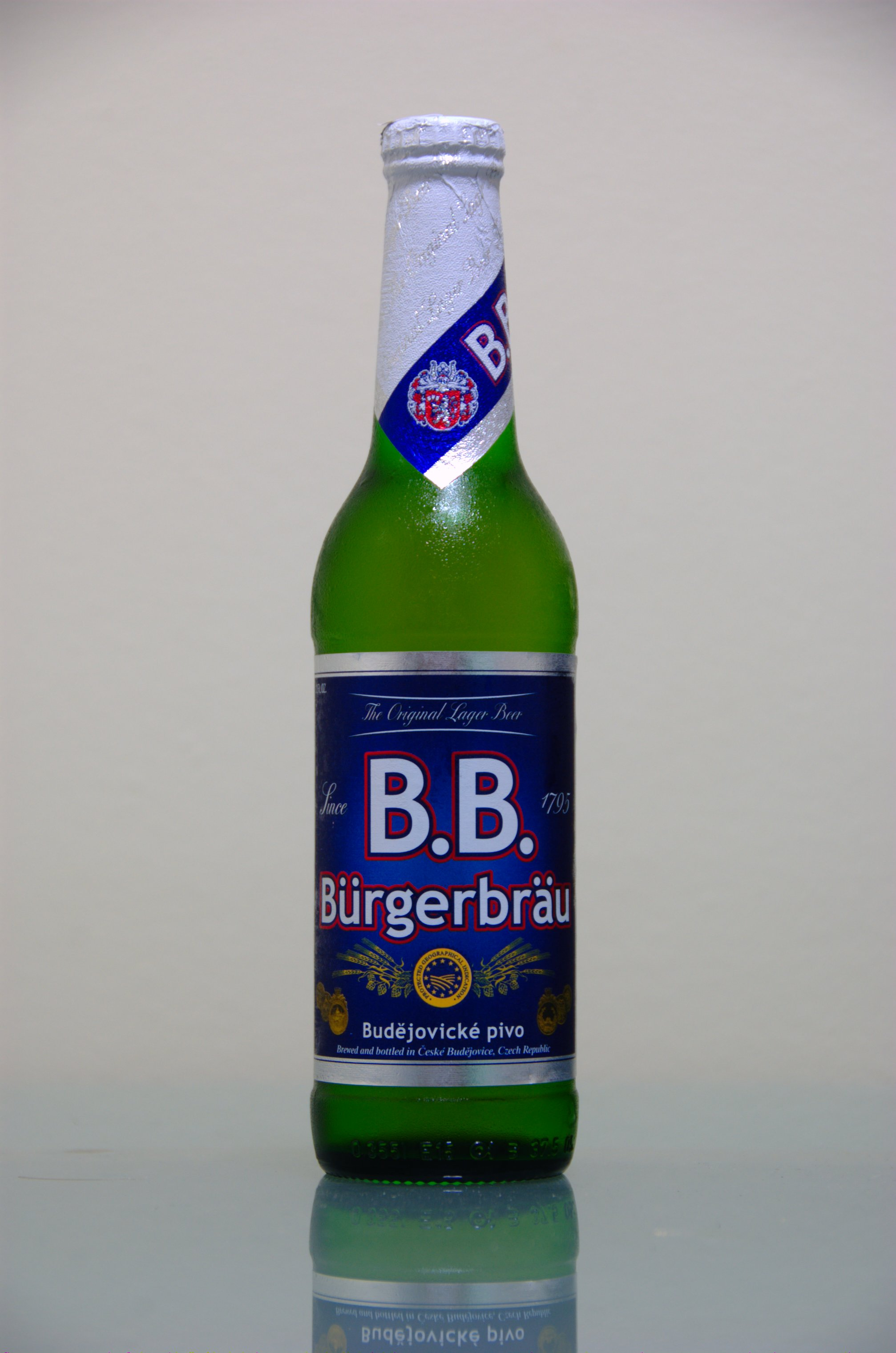 B.B. Bürgerbräu Budějovické pivo (outside USA known as B.B. Budweiser) - beer formerly brewed by Budějovický měšťanský pivovar (Bürgerliches Brauhaus Budweis) in České Budějovice (Budweis)